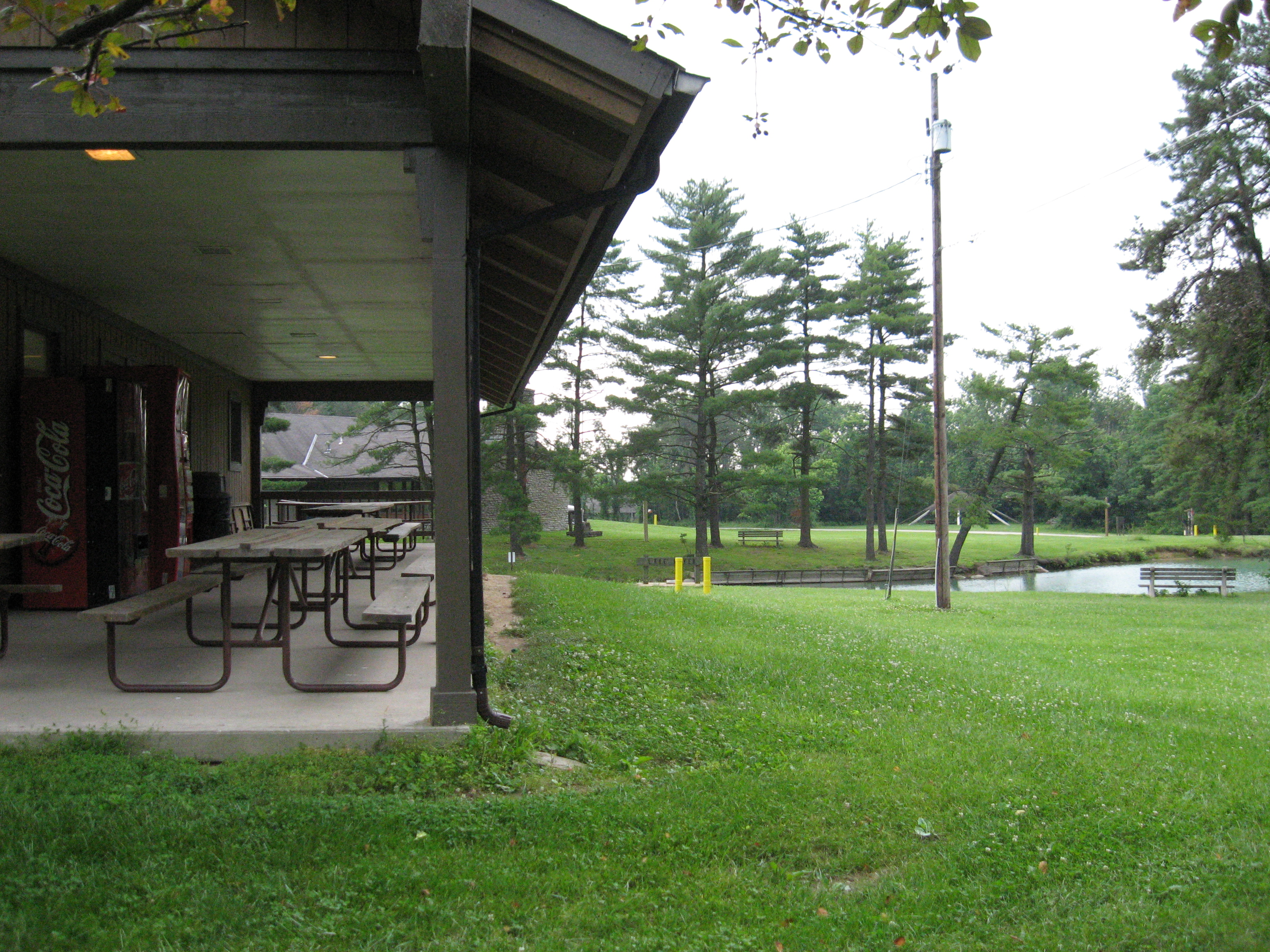 Ohio Scouting Camp Friedlander of the Dan Beard Council (Miamiville, Ohio, USA)